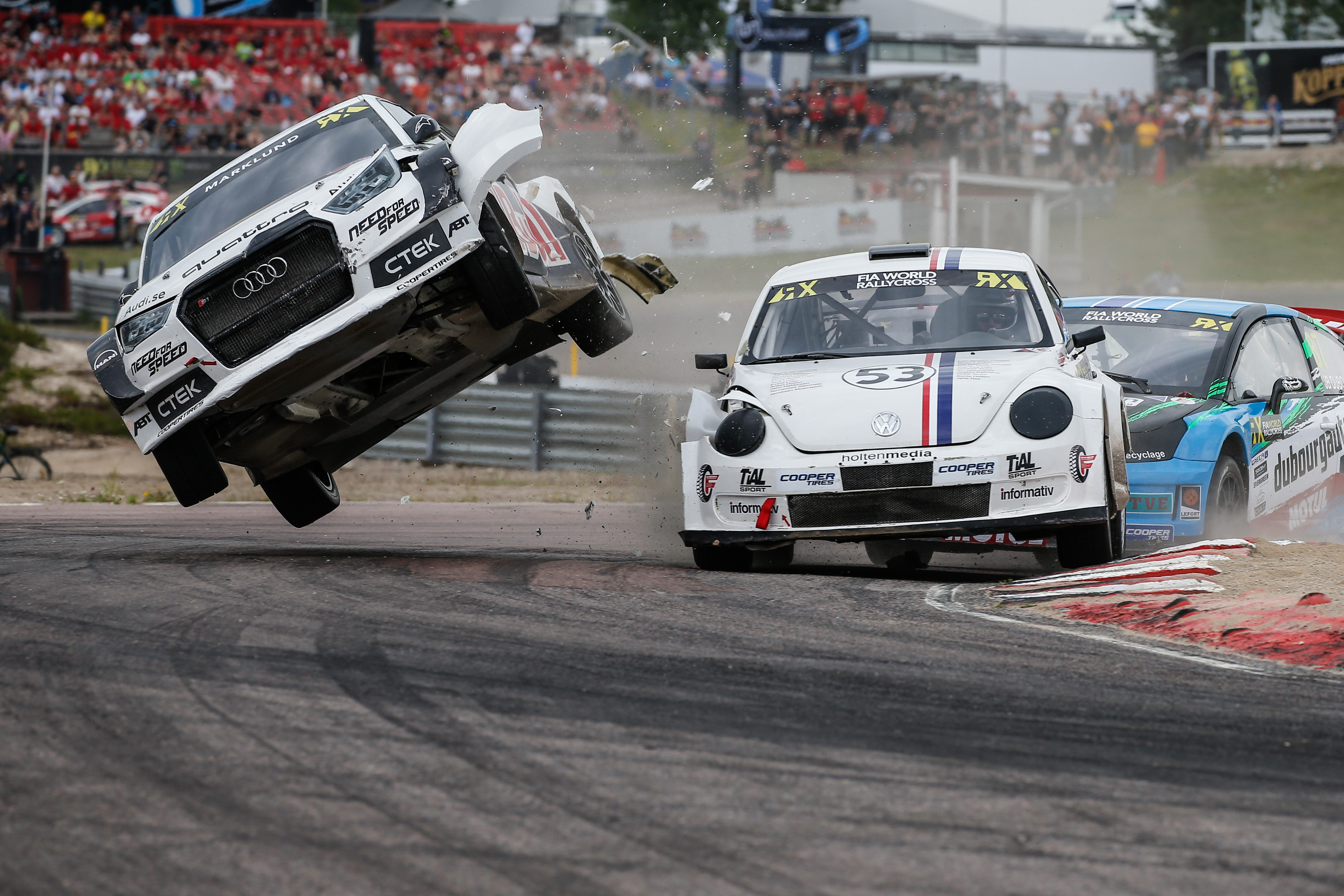 2015 FIA World Rallycross Championship / Round 06, Holjes, Sweden // 3-5 July 2015 // Worldwide Copyright: Colin McMaster/EKS/McKlein